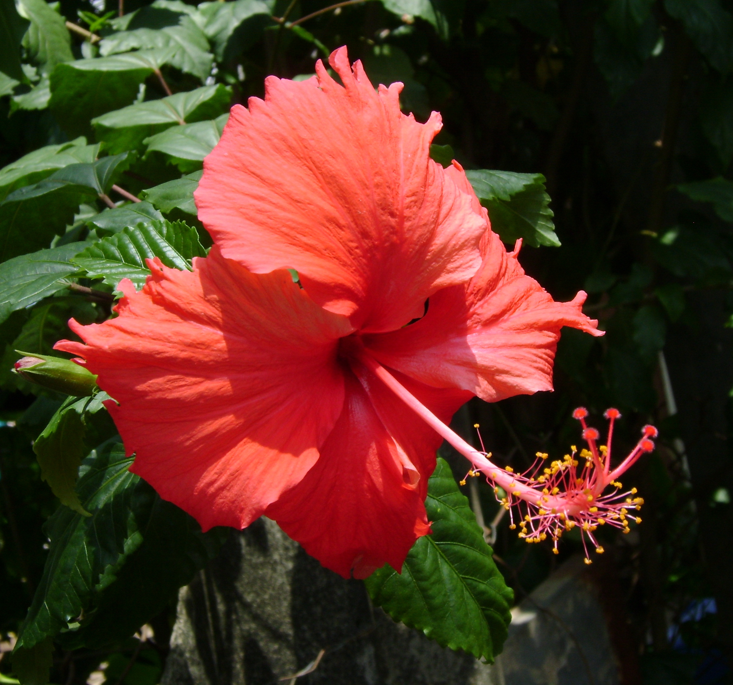 A beautiful shot was taken at noon, which show almost the beauty, the colorfulness of this Hibiscus Cultivar. The hibiscus represents for the enthusiasm, the liveliness, the feeling of full energy.